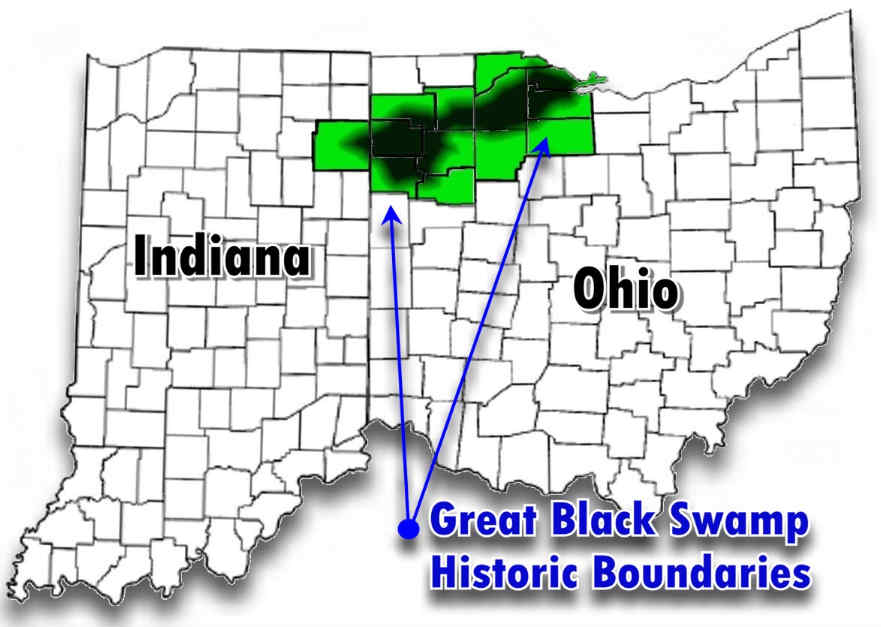 Map of Indiana and Ohio showing location of Black Swamp. Black swamp large -- I made this